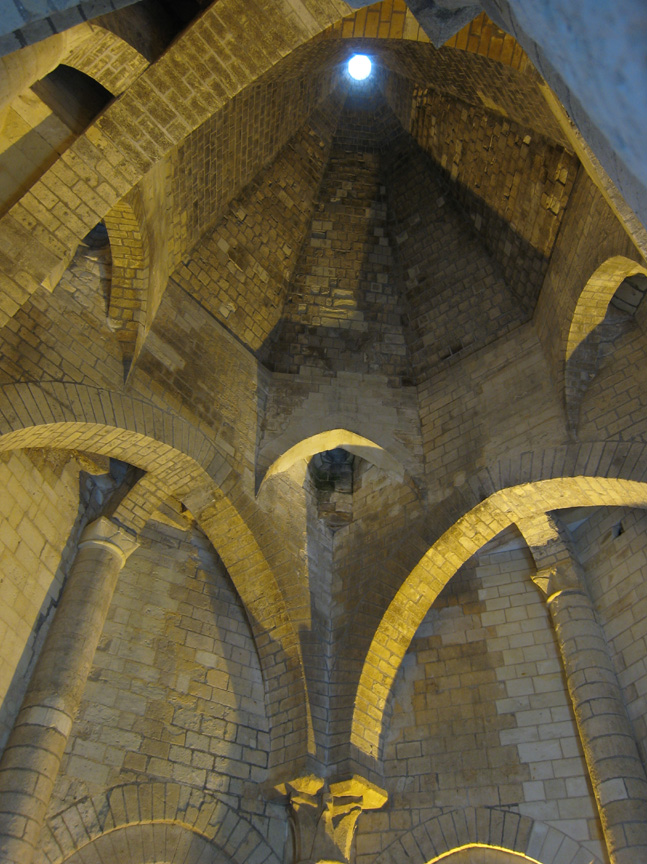 Monastery Fontvraud in France, kitchen building in romanesque stil